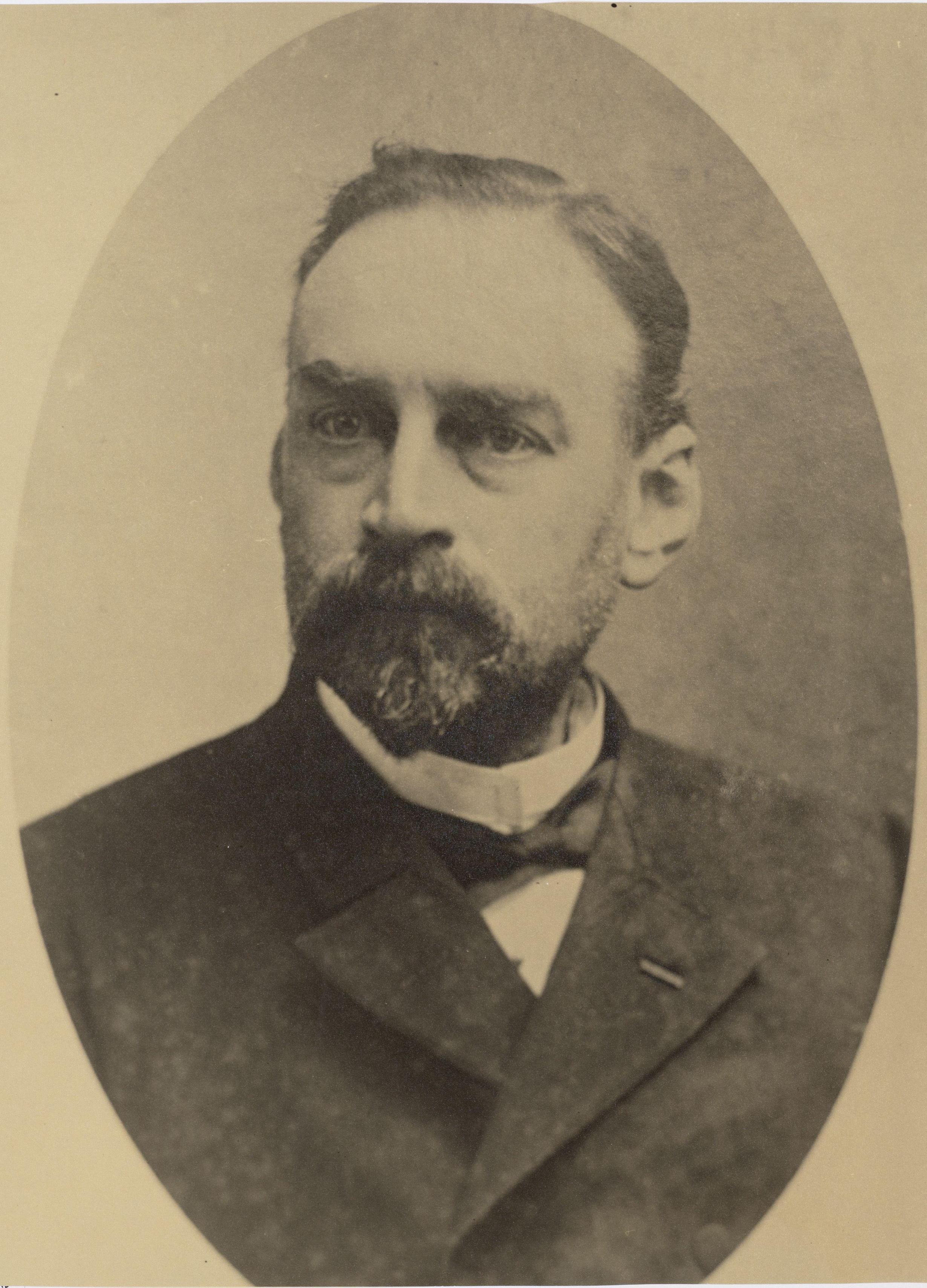 H.G. van Doesburgh (1836-1897); from 1878 to 1894 Chief Constable of the Amsterdam Police